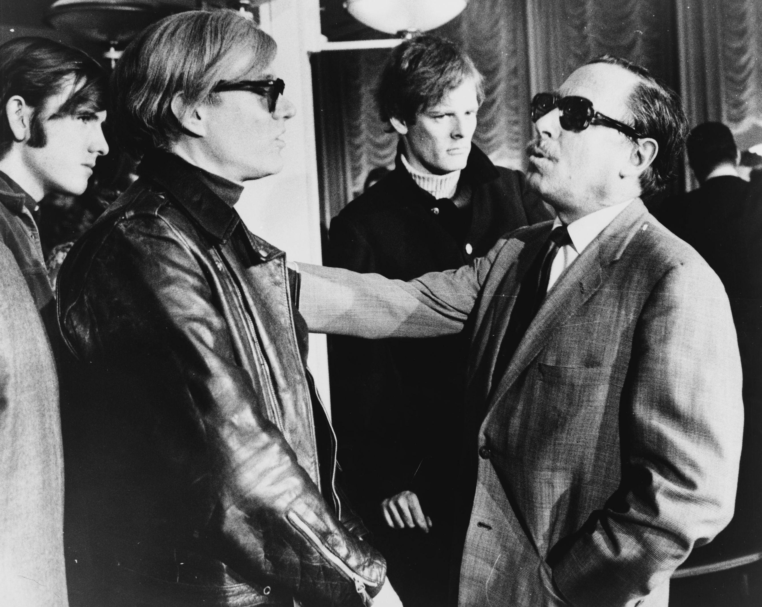 Andy Warhol (left) and Tennessee Williams (right) talking on the SS France, in the background: Paul Morrissey.